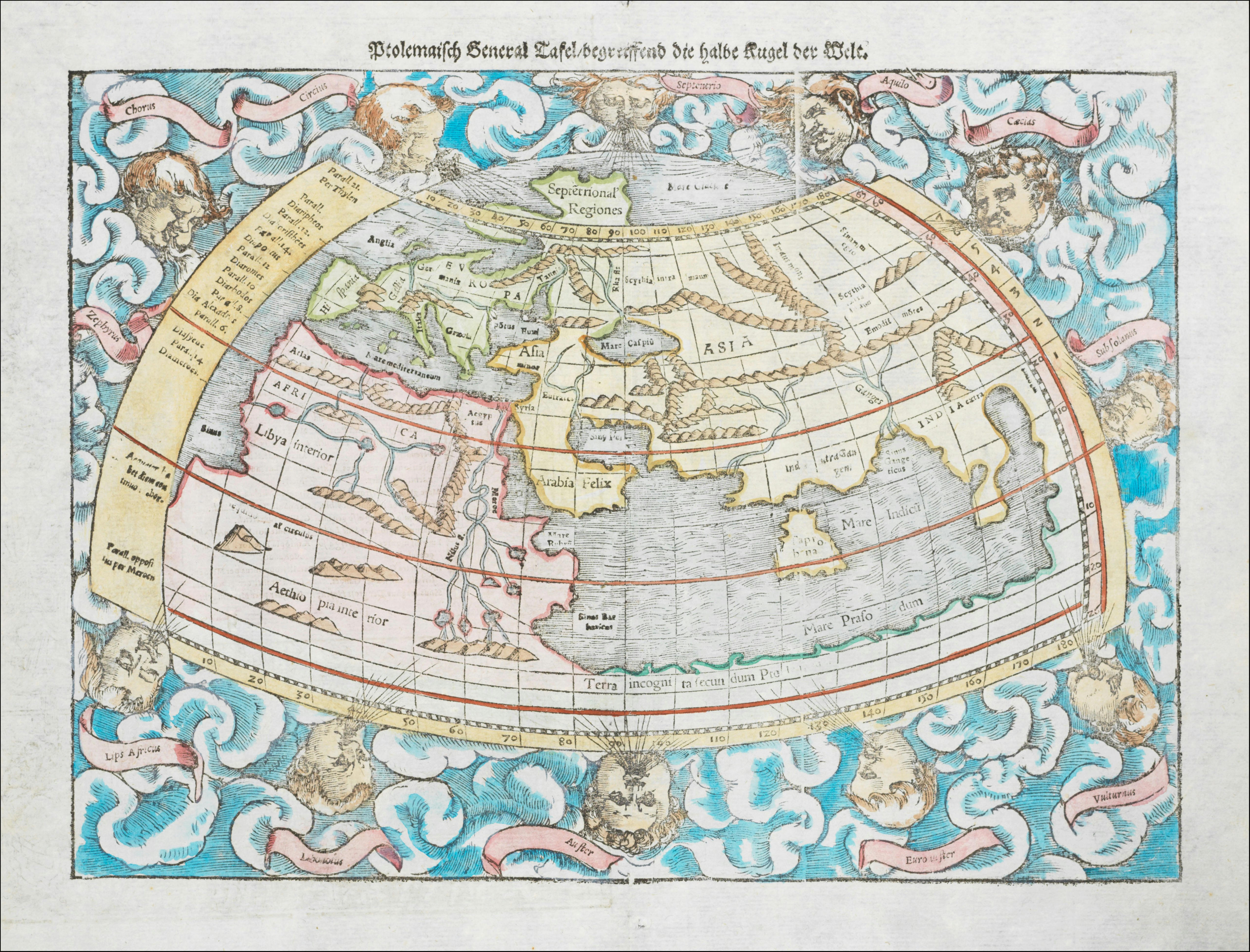 1550 Ptolemaic world map by Sebastian Münster